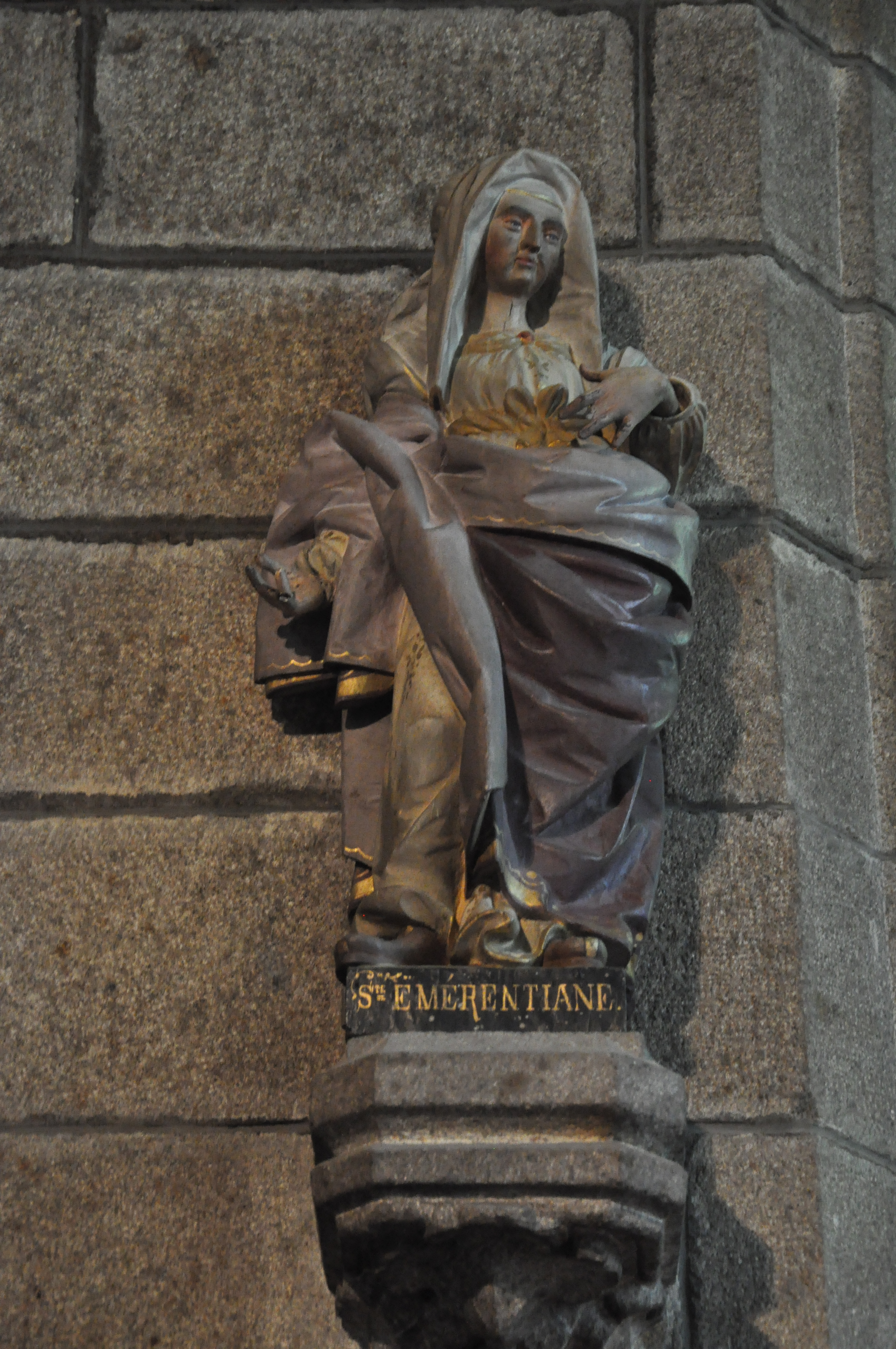 Villedieu-les-Poêles (France, Normandy), statue of Saint Emerentiana